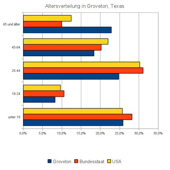 Population pyramid (or at least half of one) comparing the ages of the populations of Groveton, Texas, the state of Texas, and the USA in the year 2000.